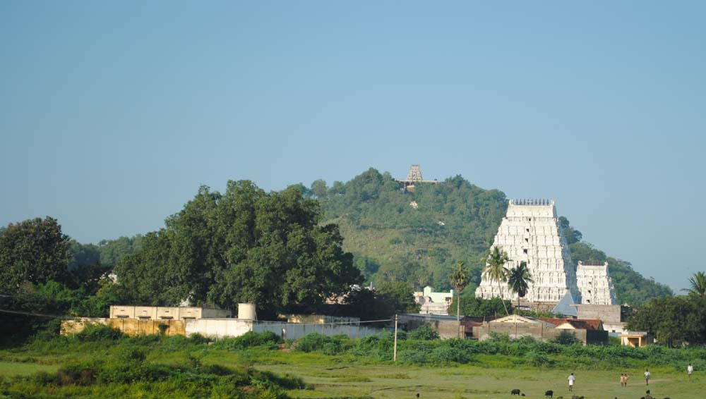 Devikapuram front view